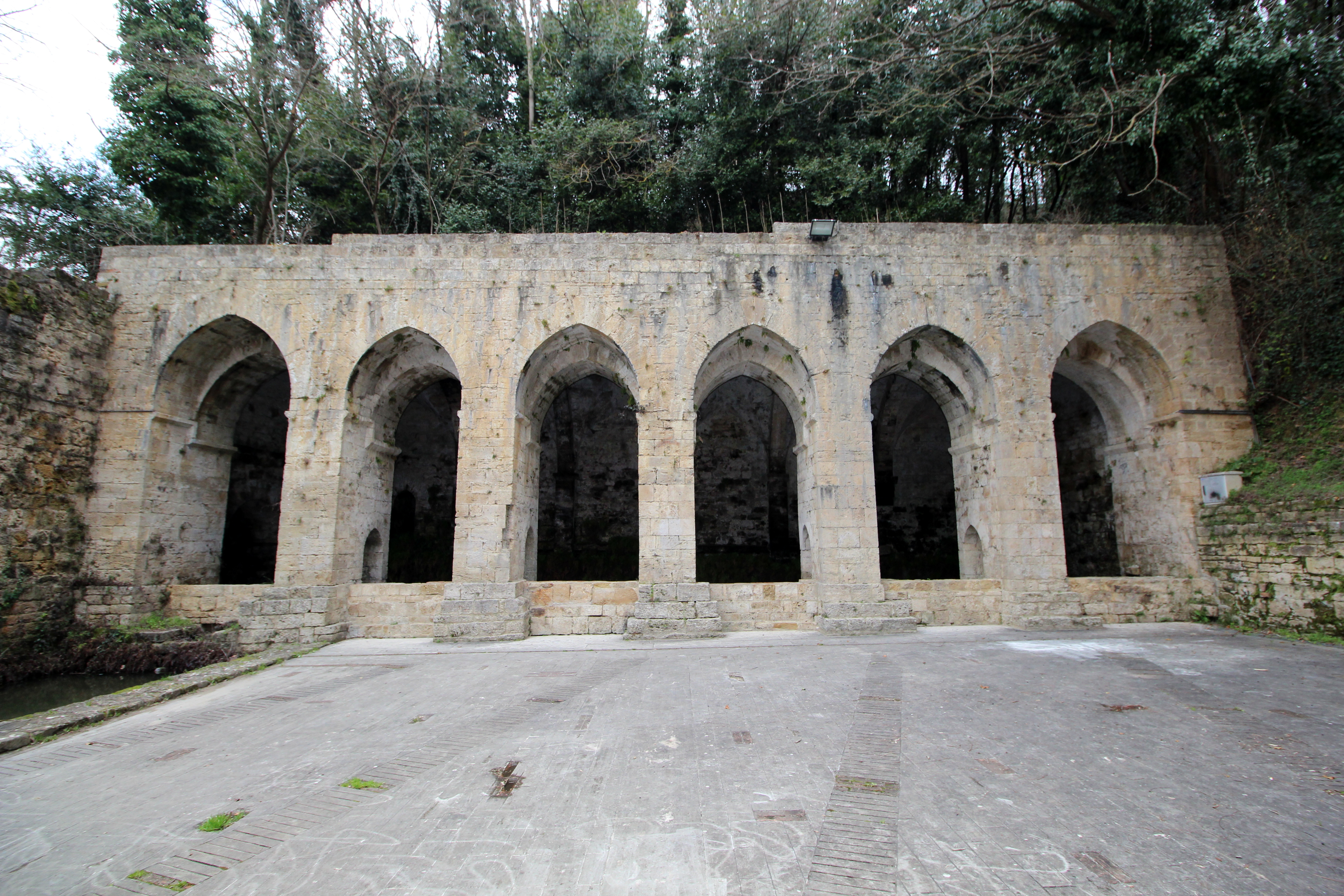 Fonte delle Fate, Fountain outside Poggibonsi near the Fortress Fortessa Medicea, Poggibonsi, Province of Siena, Tuscany, Italy